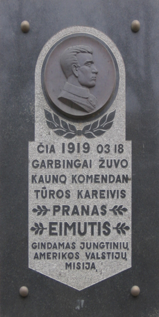 Pranas Eimutis Memorial Tablet on 68, Freedom Avenue, Kaunas, Lithuania